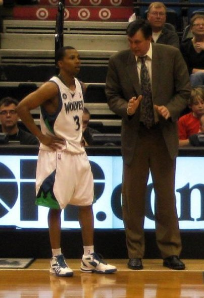 Minnesota Timberwolves coach Kevin McHale (right) talking to Sebastian Telfair